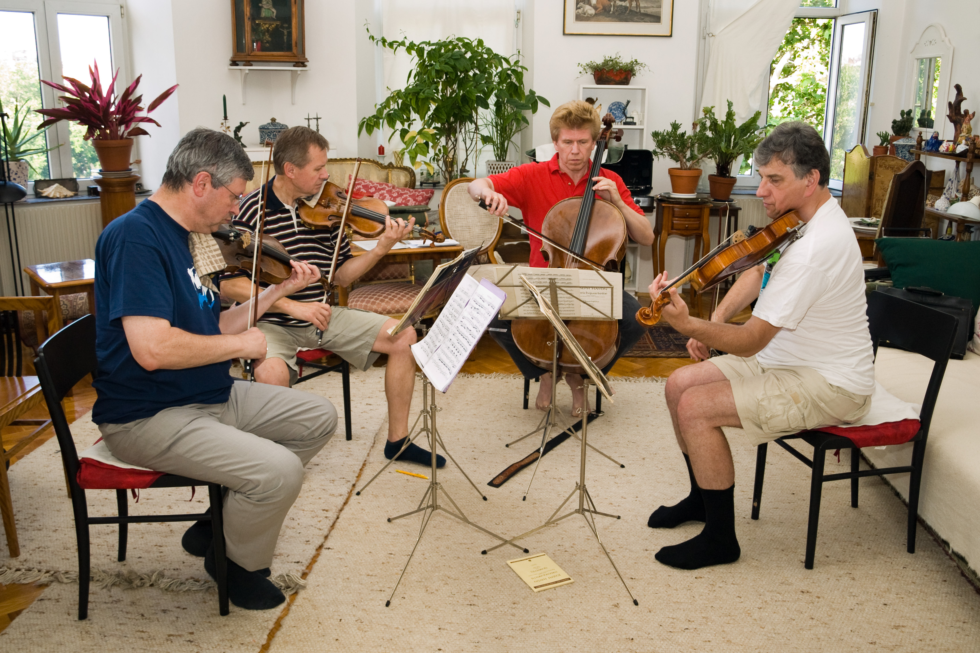 Pražák Quartet during a private practice, left to right: Pavel Hůla (violin), Vlastimil Holek (violin), Michal Kaňka (cello), Josef Klusoň (viola)